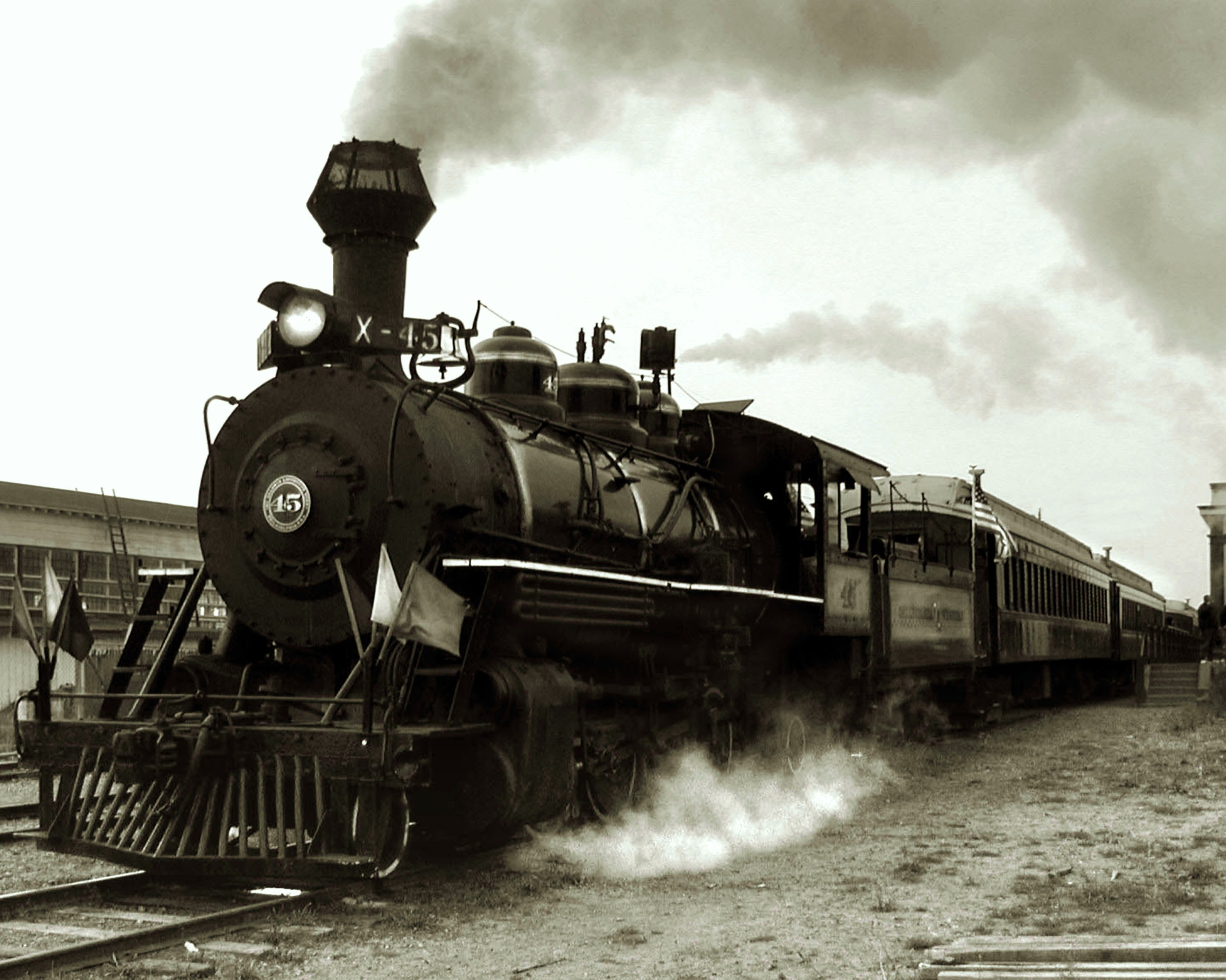 Locomotive 45 pulling the 'Super Skunk' train arrives at Willits Depot on July 4, 2001. Heritage scenic line (1965 to 2001) of the California Western Railroad in Mendocino County, California. Taken by R.A. Sallinen III July 4, 2001